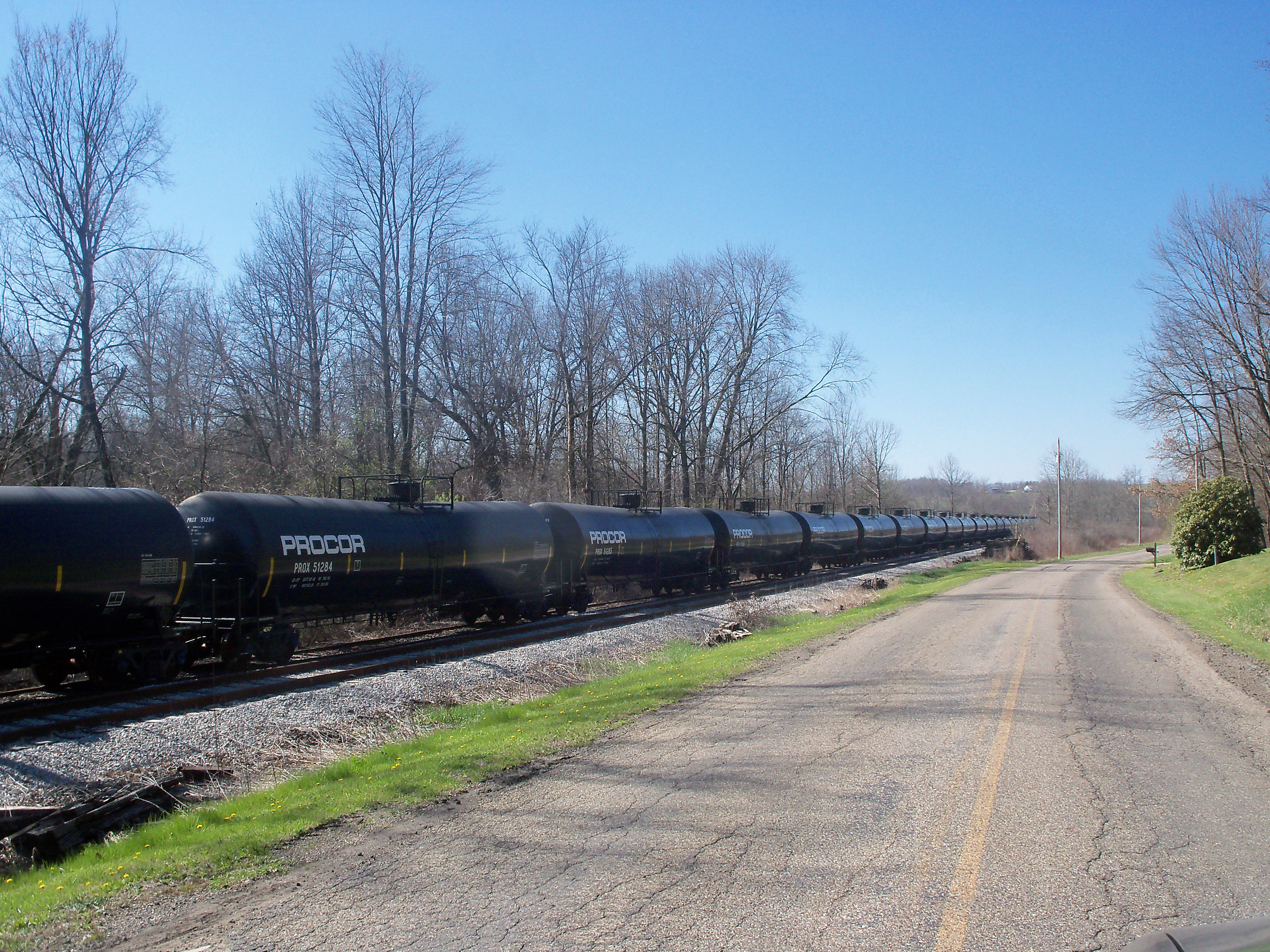 Procor Tank cars are parked next to Arbor Rd. in Carroll County, Ohio